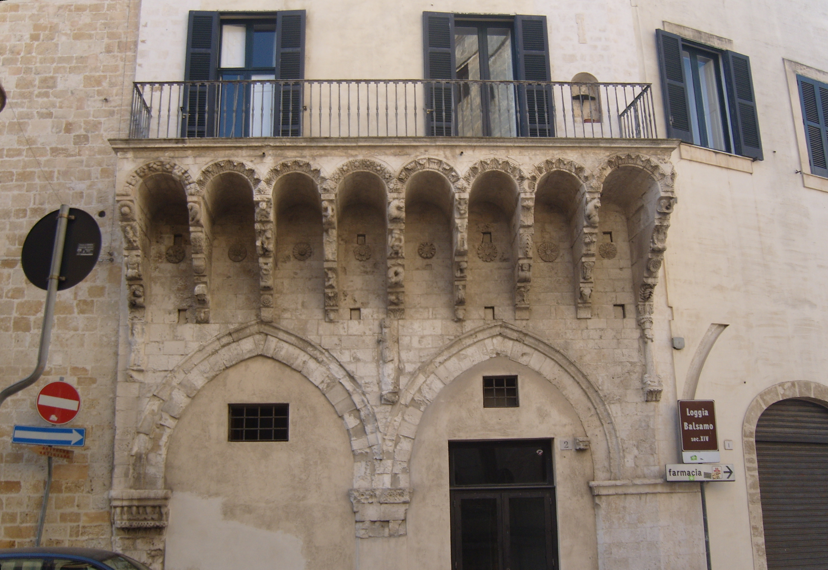 Loggia Balsamo in Brindisi